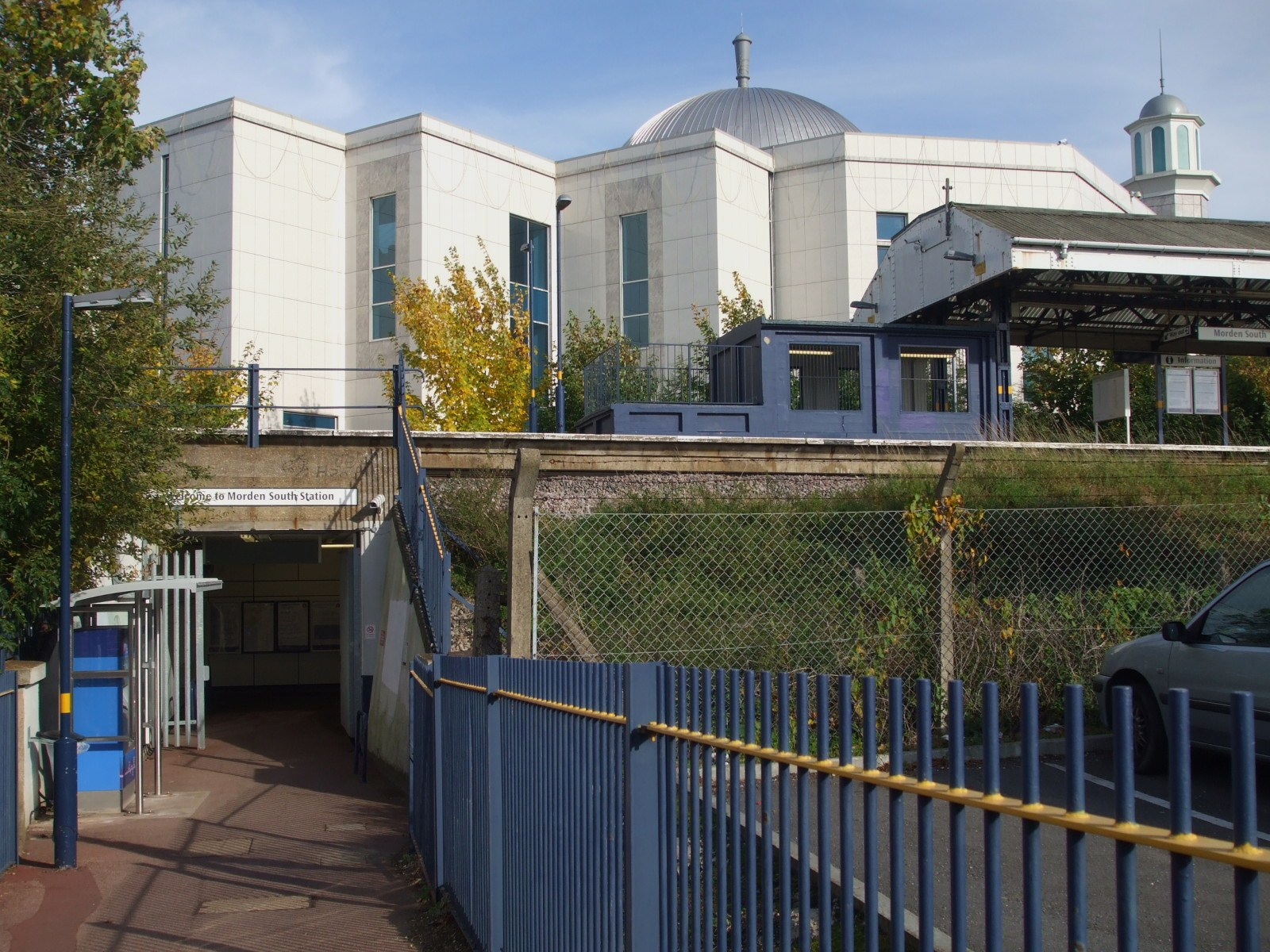 Morden South station entrance, with Morden Mosque in the background